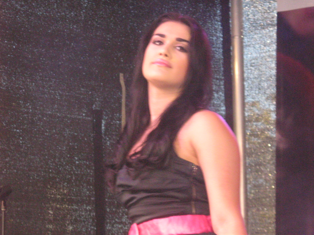 Selina Herrero